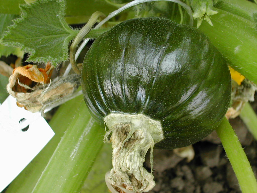 Fruit of "Zapallito" summer squash eight days after anthesis. Germplasm bank: Leibniz Institute of Plant Genetics and Crop Plant Research, Gatersleben, Germany (Leibniz-Institut für Pflanzengenetik und Kulturpflanzenforschung, abbreviated IPK), access code: MAX 301